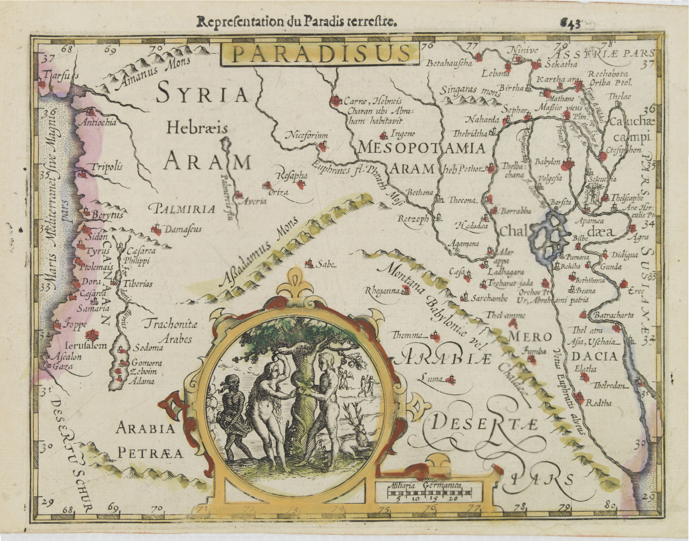 Paradisus (verso text Itinera Deserti) Amsterdam: Hondius; Atlas Minor 15 x 19 cm Copper Engraving. ALT1196